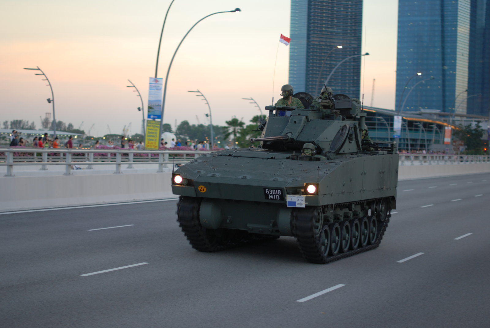 Bionix IFV, National Day Parade 2010 Combined Rehearsal 2.